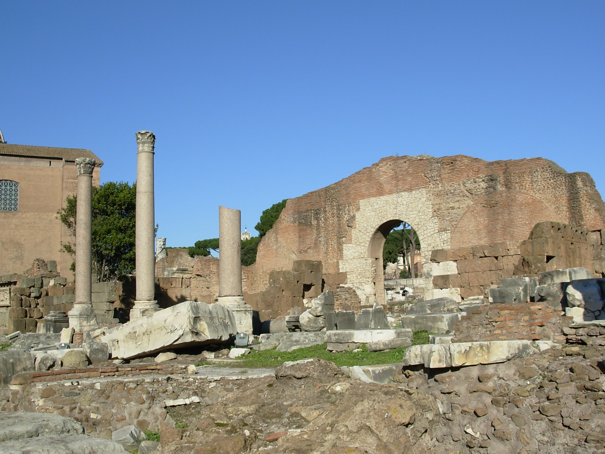 Remains of the Basilica Aemilia & the porticus of Gaius and Lucius, Forum Romanum, Rome.